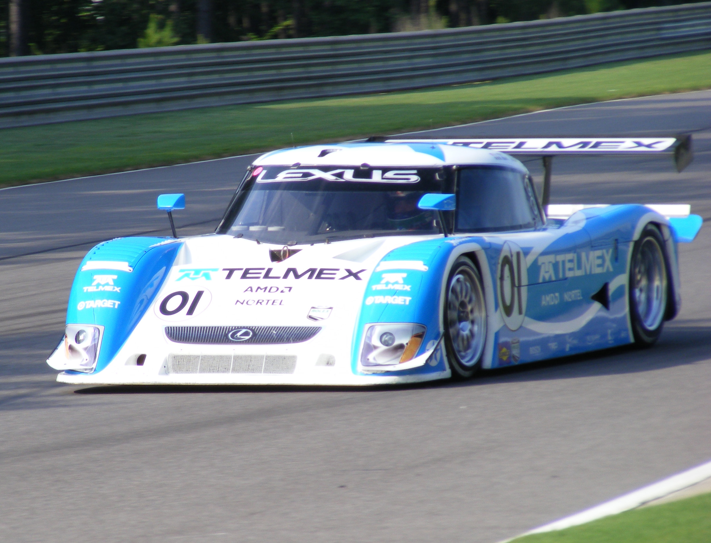 Lexus Grand Am racing